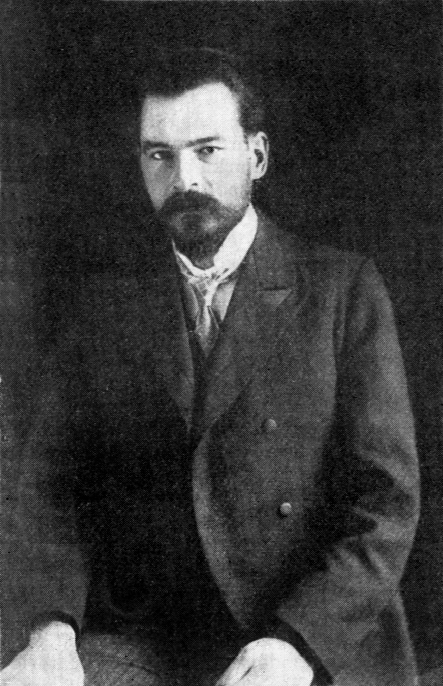 Marian Smoluchowski Polish physicist (1872-1917)